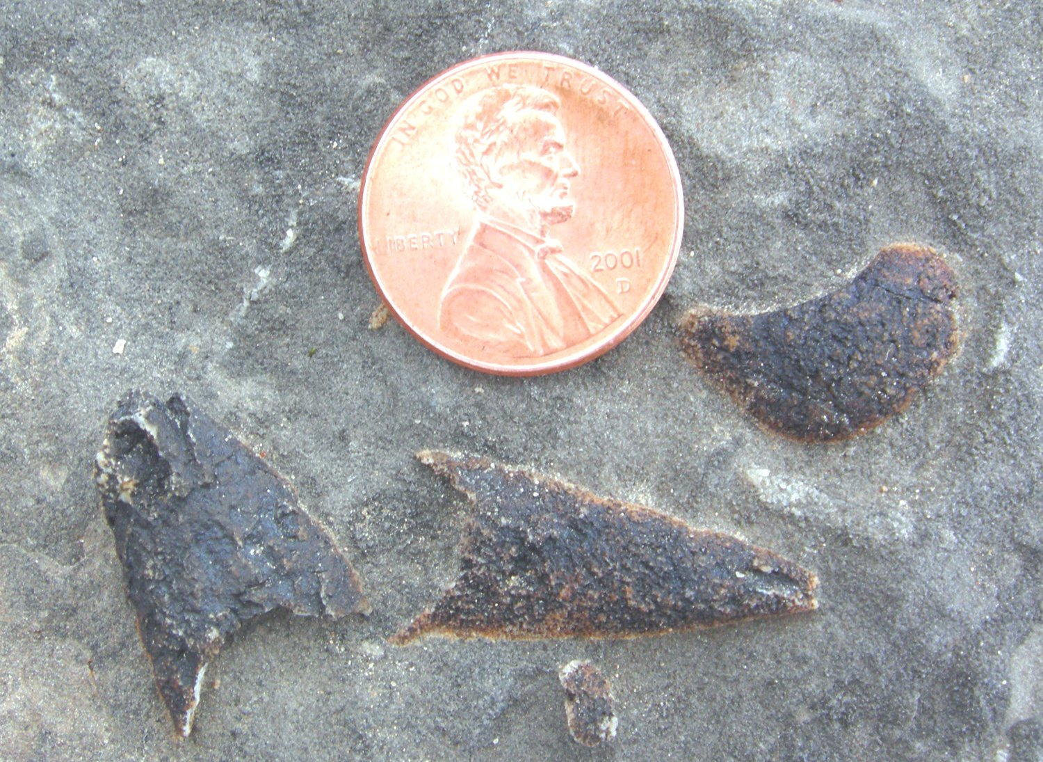 Crop of file in filename